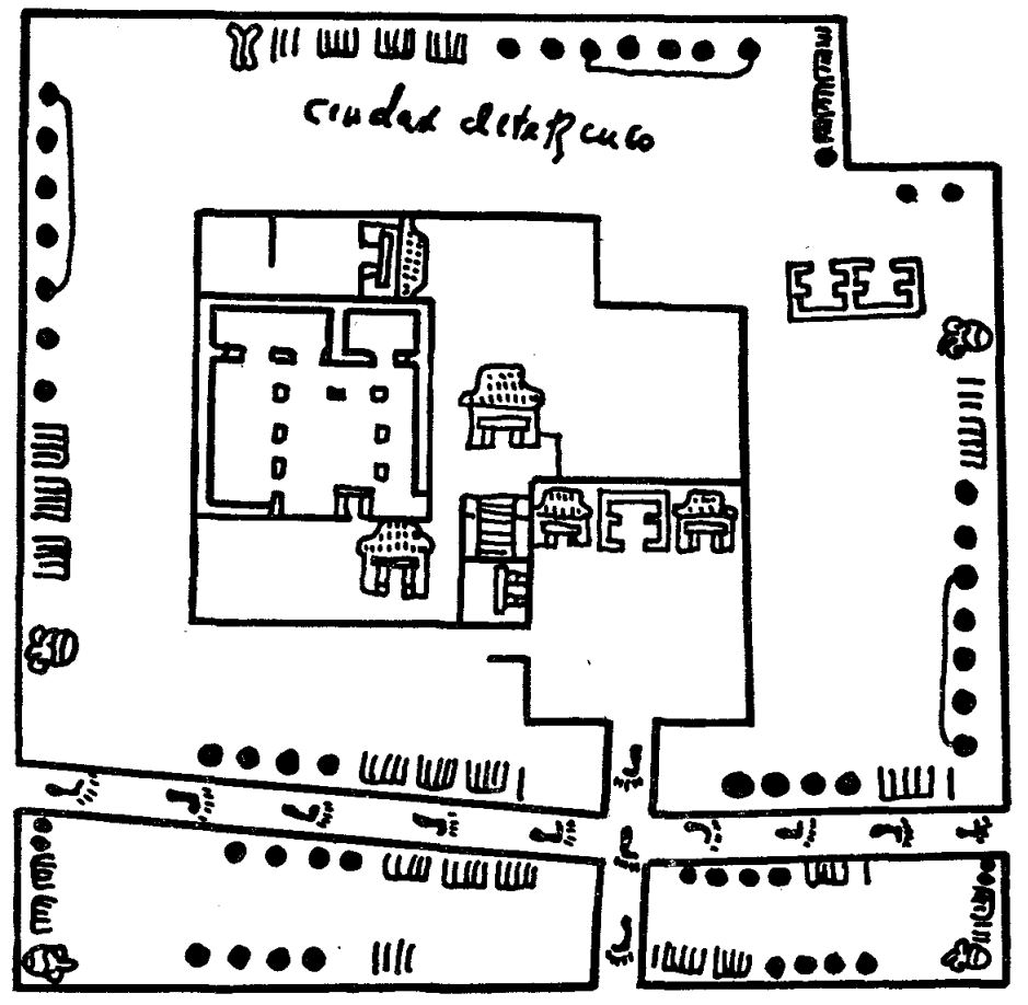 Depiction of Texcoco city showing its dimensions by the Aztec Metric System detail in the Codex Humboldt Fragment VI